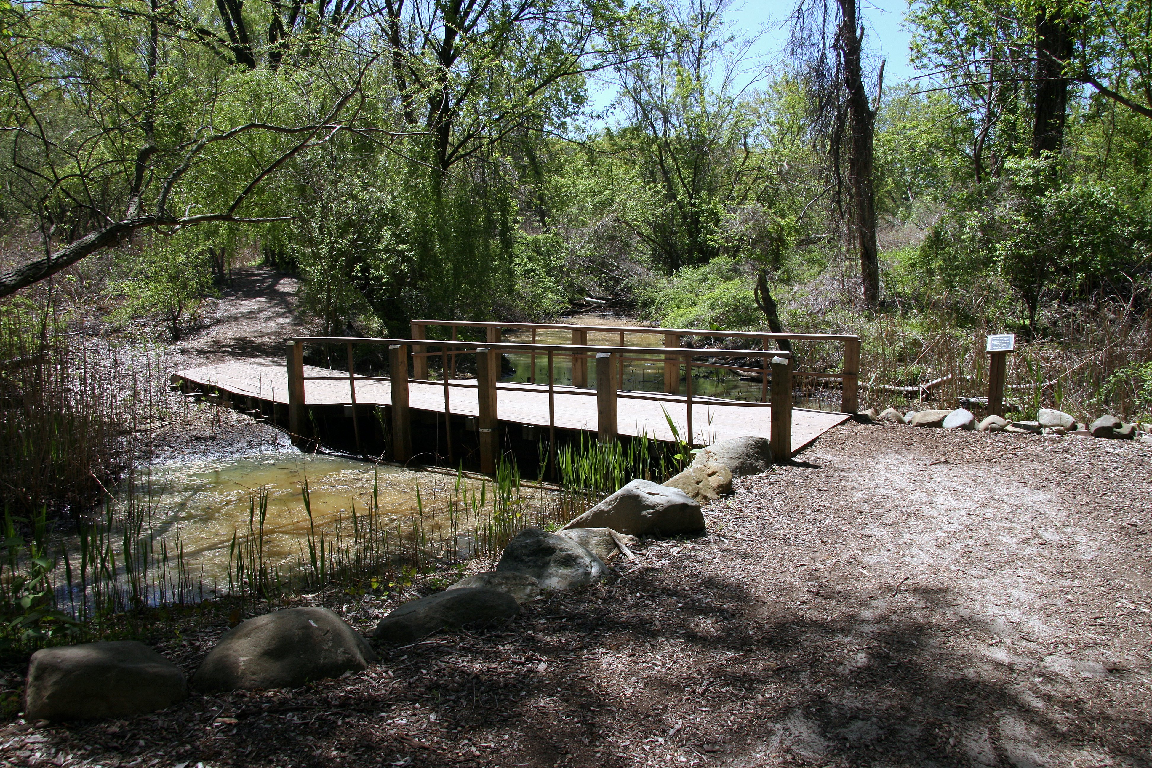 Alley Pond Environmental Center "Dedicated to establishing an awareness, understanding and appreciation of the environment and the responsibilities associated with preserving the environment in an urban setting."